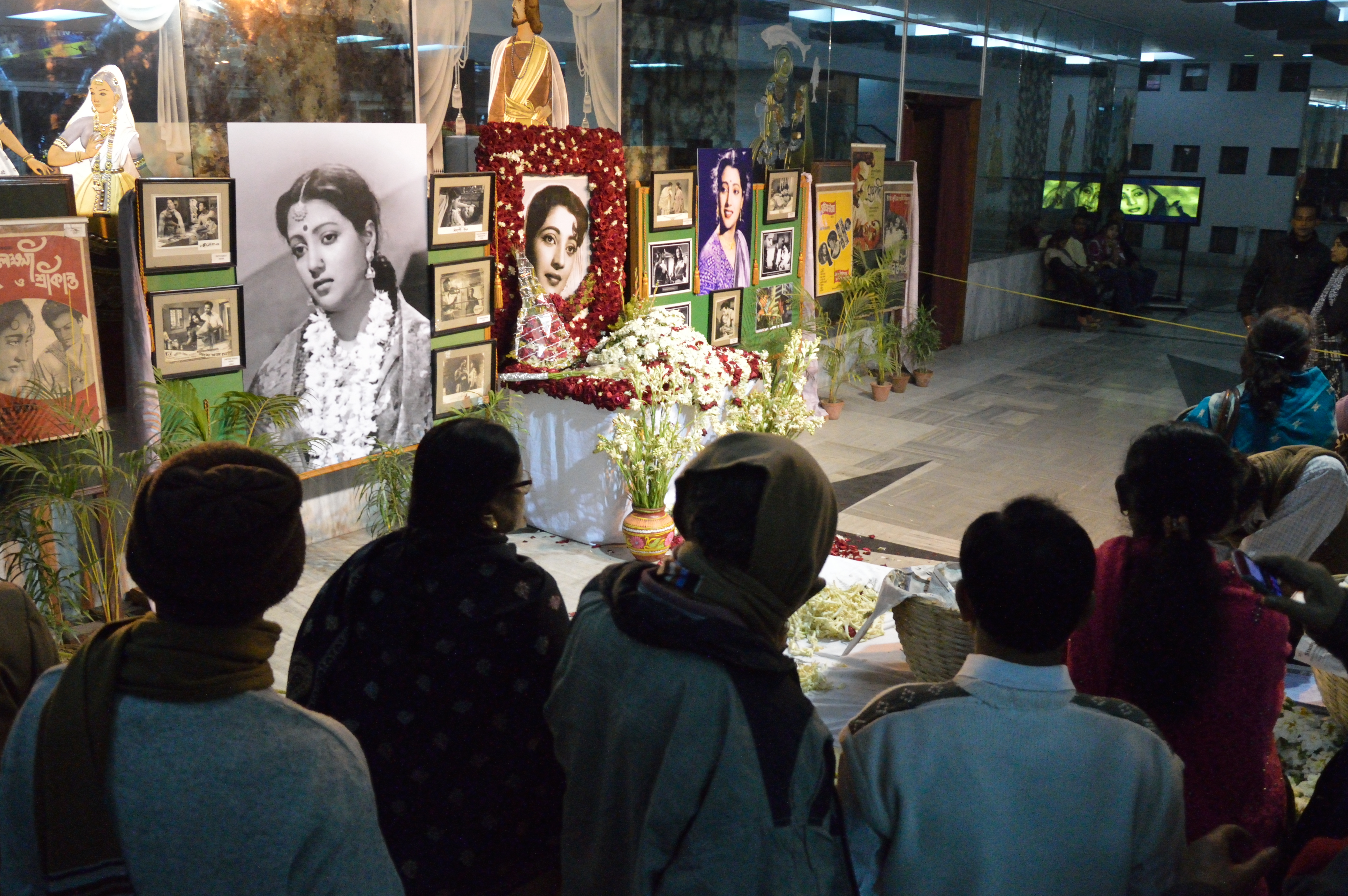 Photographed in Kolkata.